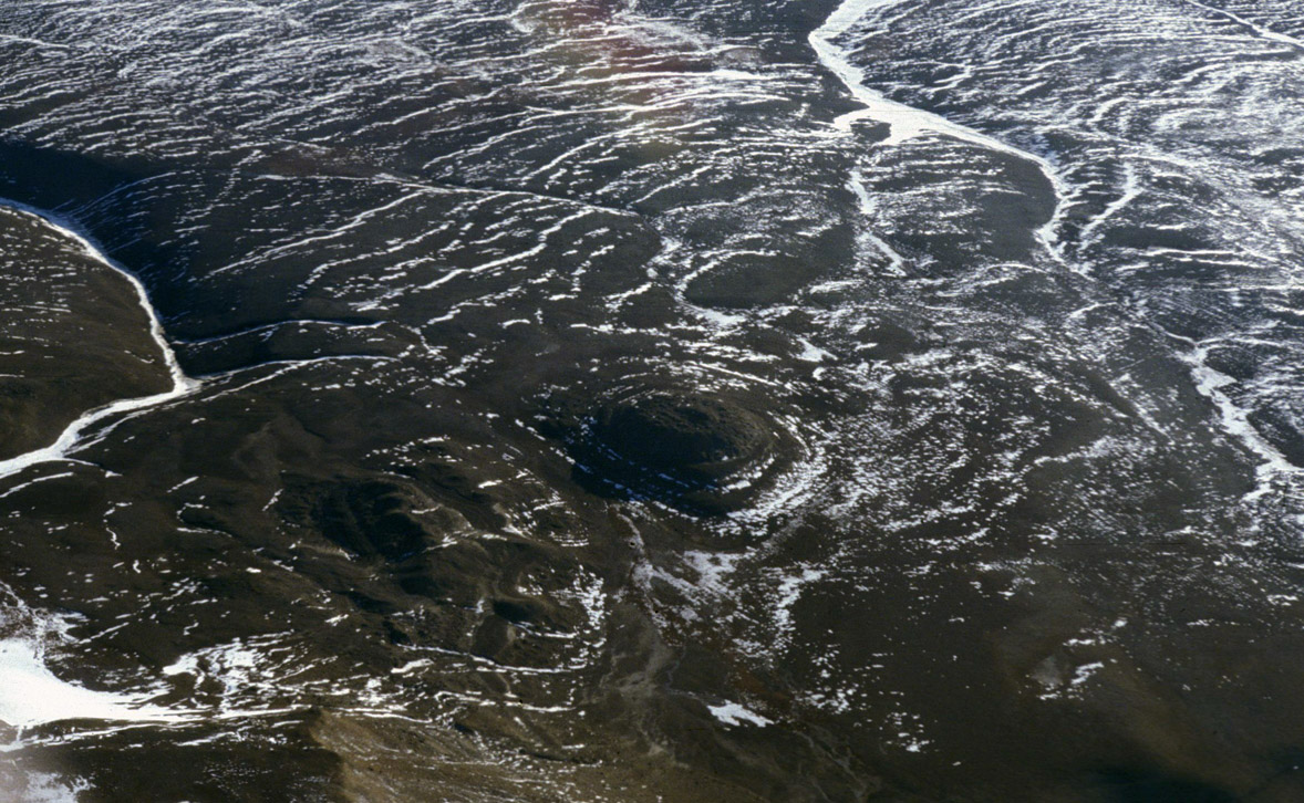 Pingo in east Greenland (aerial view)